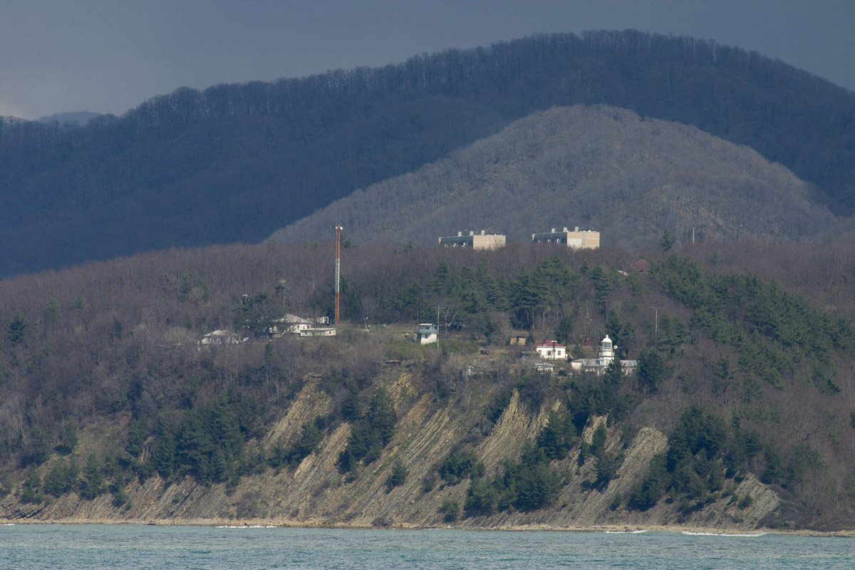 Lighthouse on cape Kodosh near Tuapse, Black sea.